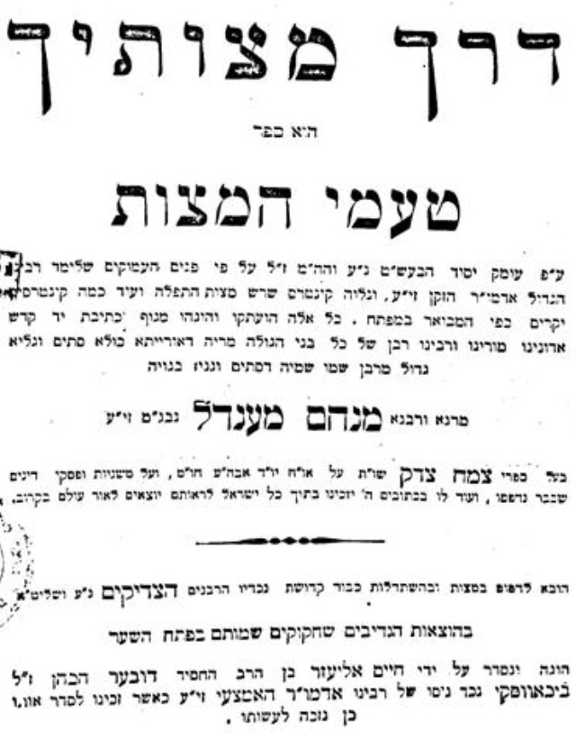 Derech Mitzvosecha. Book title page. Author Rabbi Menachem M Schneersohn (d. 1866). Image is of the title page of the 1912 edition (now in public domain).